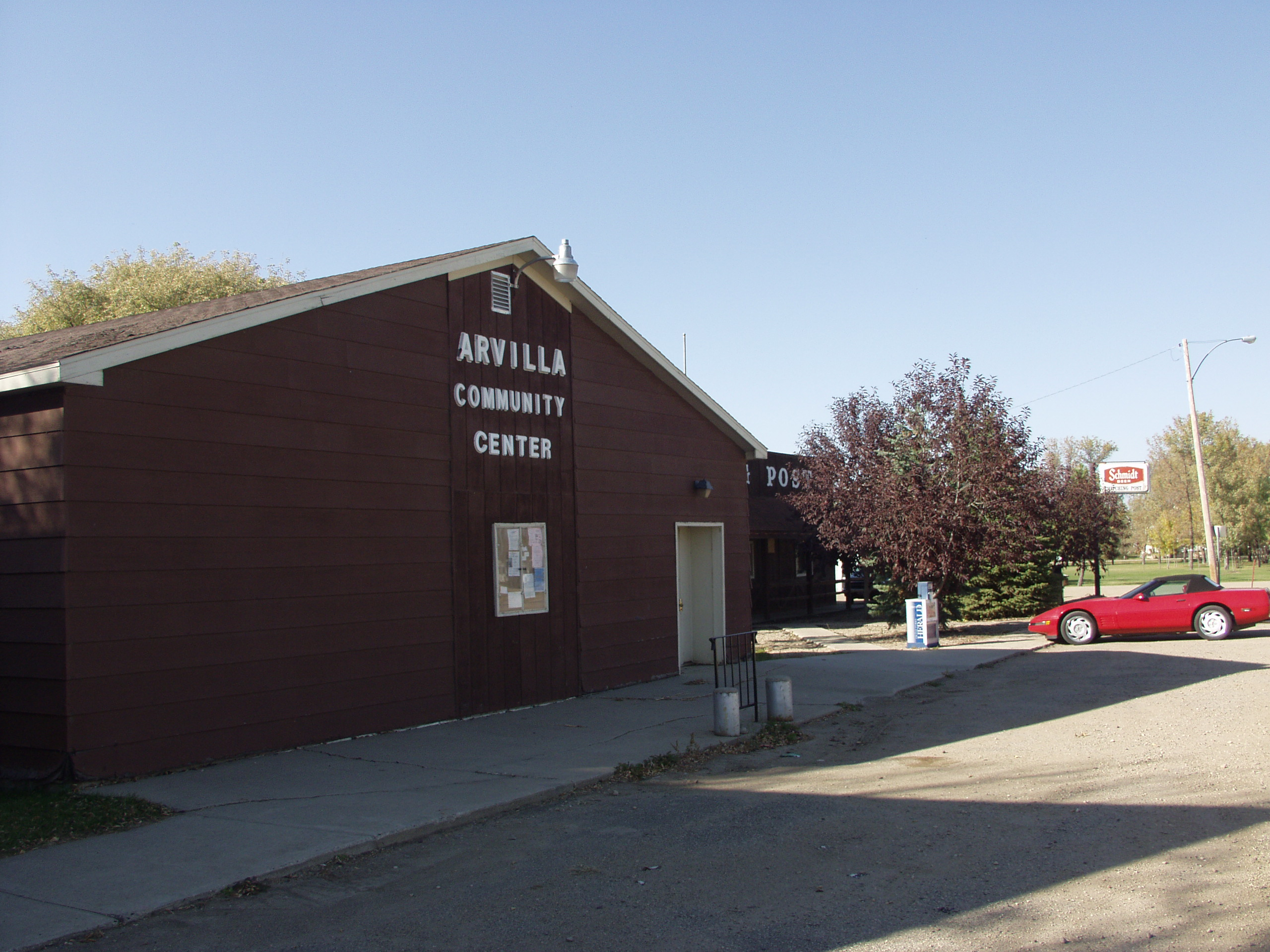 Arvilla Community Center in Arvilla, North Dakota